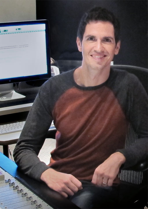 Miklos Malek. Miklos Malek in the Westlake Studio.